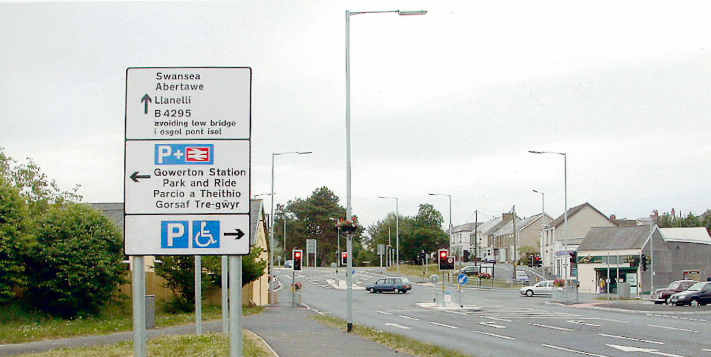 Gowerton: site of ex-LNW station. View eastward on B4295 High Street, at approximate former site of ex-LNW Gowerton ('South' from 1/50) station on the Pontardulais - Swansea Victoria section (closed 15/6/64) of the Central Wales line from Craven Arms, the subsequent 'Heart of Wales' trains running via Llanelli.